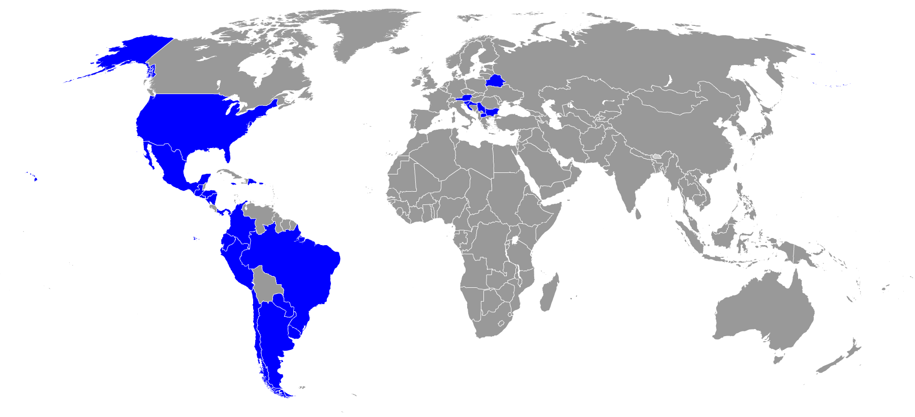 América Móvil in the world